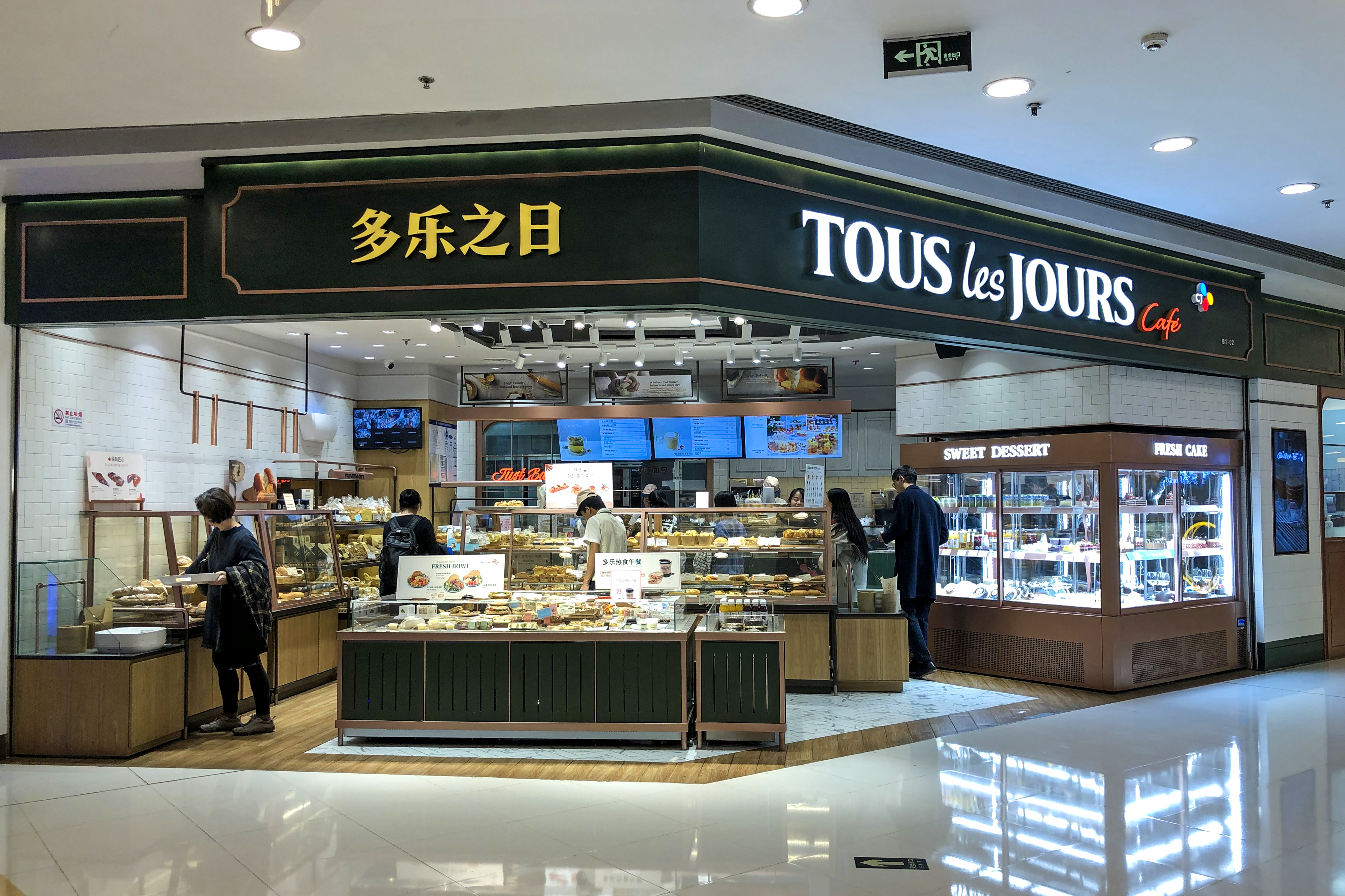 A Korean bakery with French name.